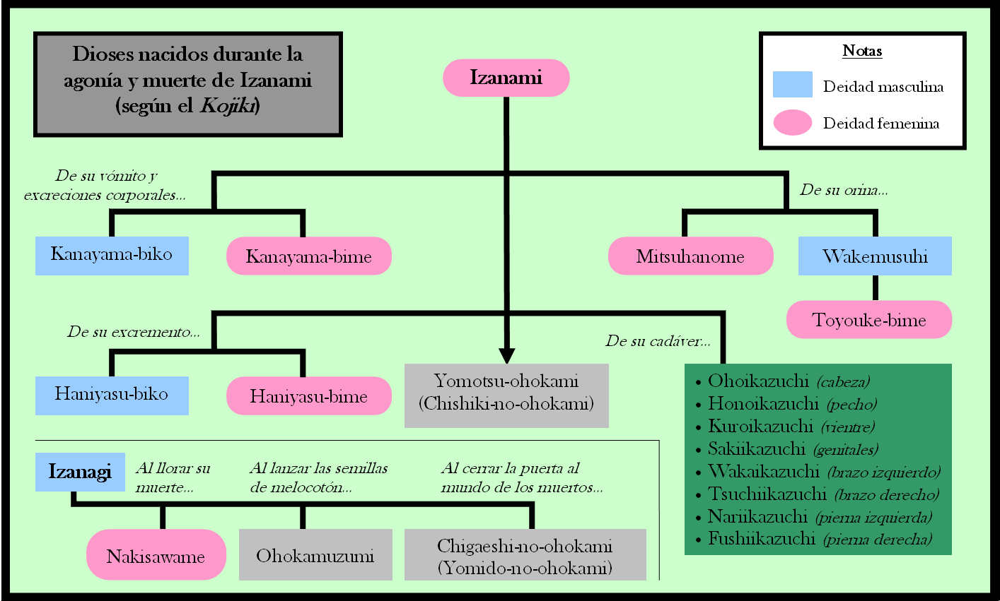 Genealogy of Izanami in her death, in the japanese mythology